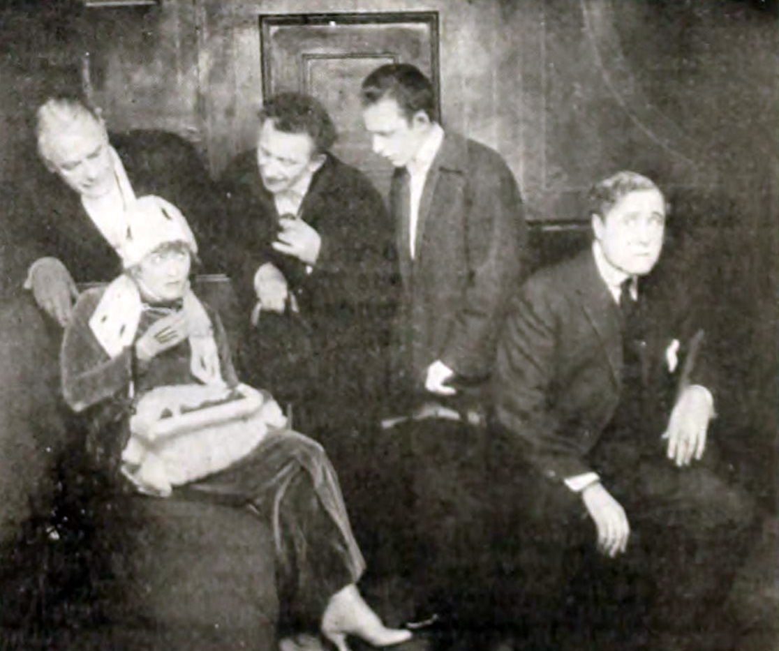 Illustration from a review in The Moving Picture World for the film The Flirting Bride (1916).